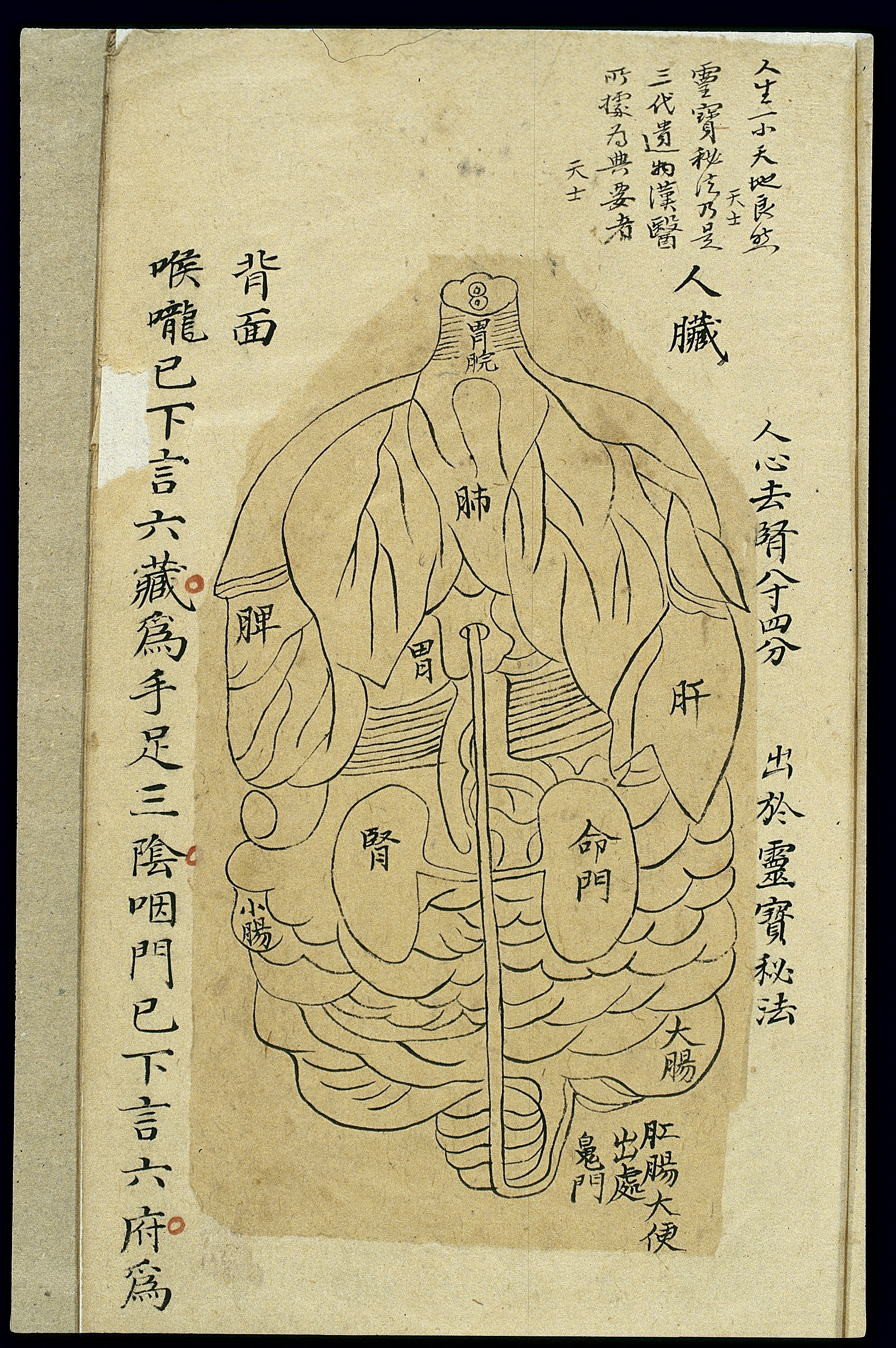 Woodcut, incorporated into a handwritten copy of Yuanmen maijue neizhao tu (Internal Visualisation Charts from the 'Primordial Portal' Secrets of the Pulse), attributed to Hua Tuo, a renowned physician of the third century BCE. This chart shows the internal distribution of various viscera and organs from the back view. They include the stomach cavity, the lung, the stomach, the liver, the spleen, the [left] kidney, the mingmen (right kidney considered as 'Portal of Life'), the small and large intestine, etc. Wellcome Images Keywords: Viscera; Medicine, Chinese Traditional; Neijing; Internal visualisation